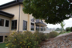 mbbc dining complex